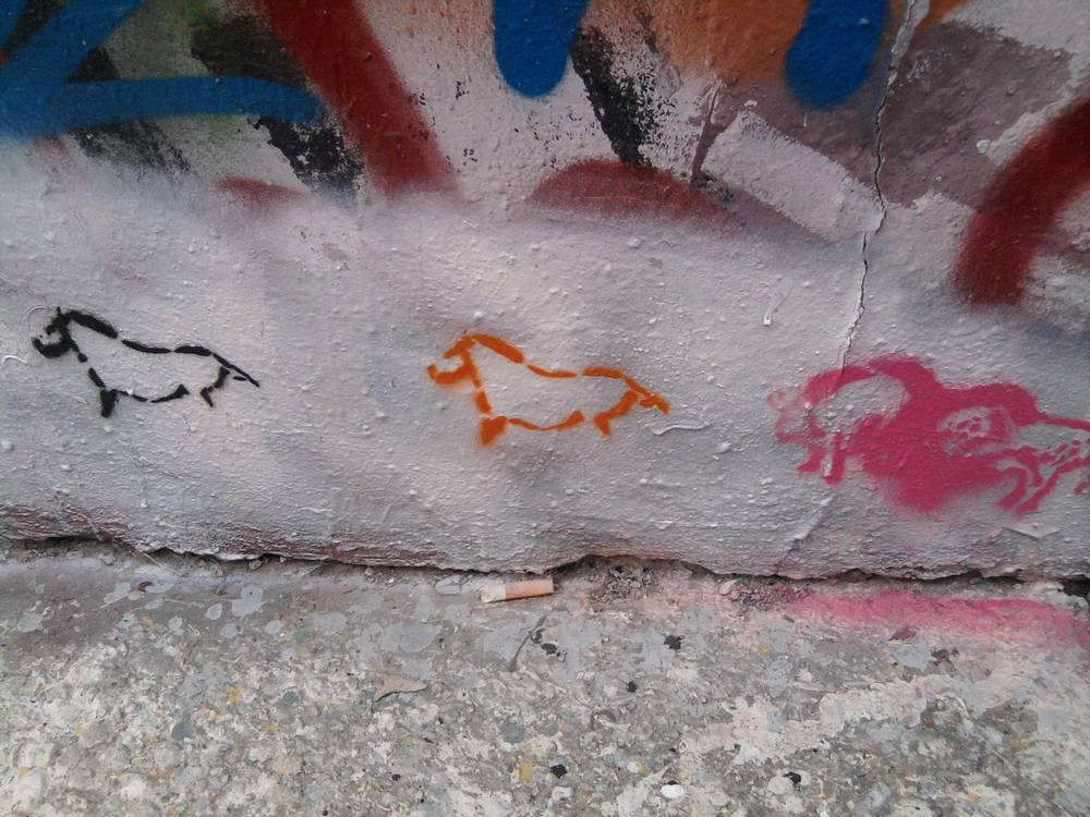 Stencil art by basque artist X10. Figures from paleolithic Basque caves.